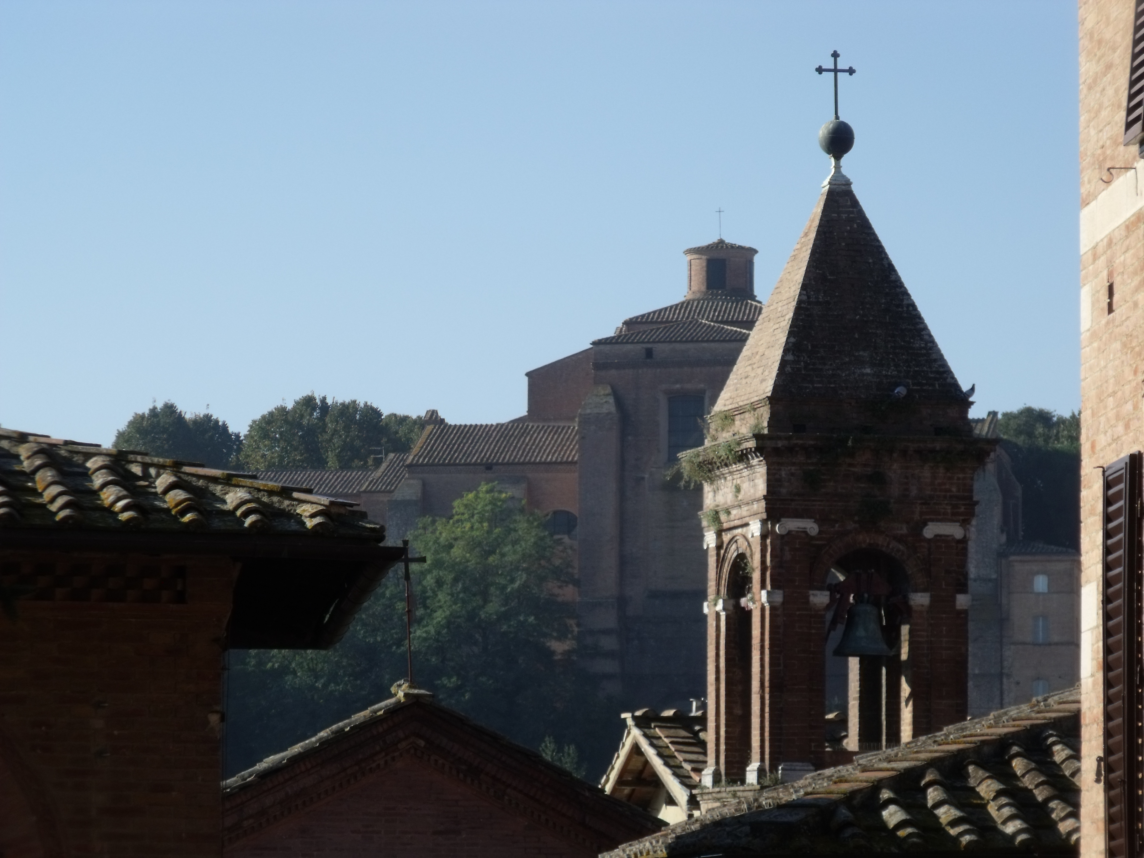 The Campanile of the Church of San Giacomo in Siena, Contrada della Torre, Tuscany, Italy (Background: Sant’Agostino Church)